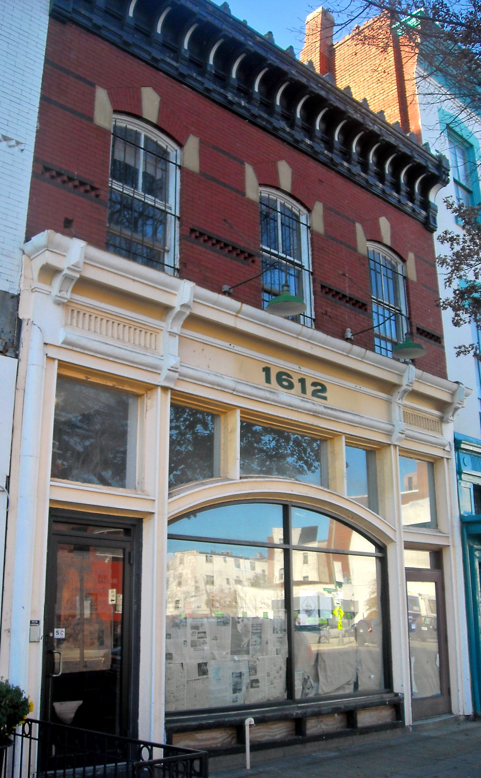 The Washington Afro-American Newspaper Office Building, former site of The Washington Afro American's newsroom, located at 1612 14th Street, N.W., in the Logan Circle neighborhood of Washington, D.C. Built in 1902, the Italianate-style office building is designated as a contributing property to the Fourteenth Street Historic District, listed on the National Register of Historic Places in 1994.